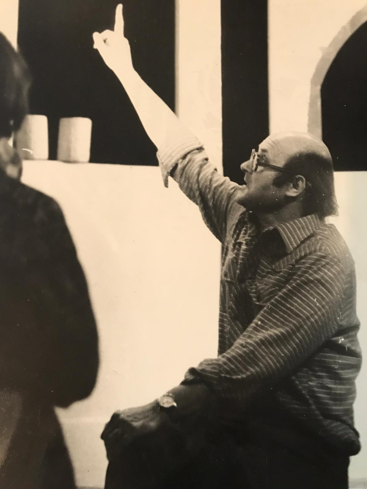 Zbigniew Poprawski